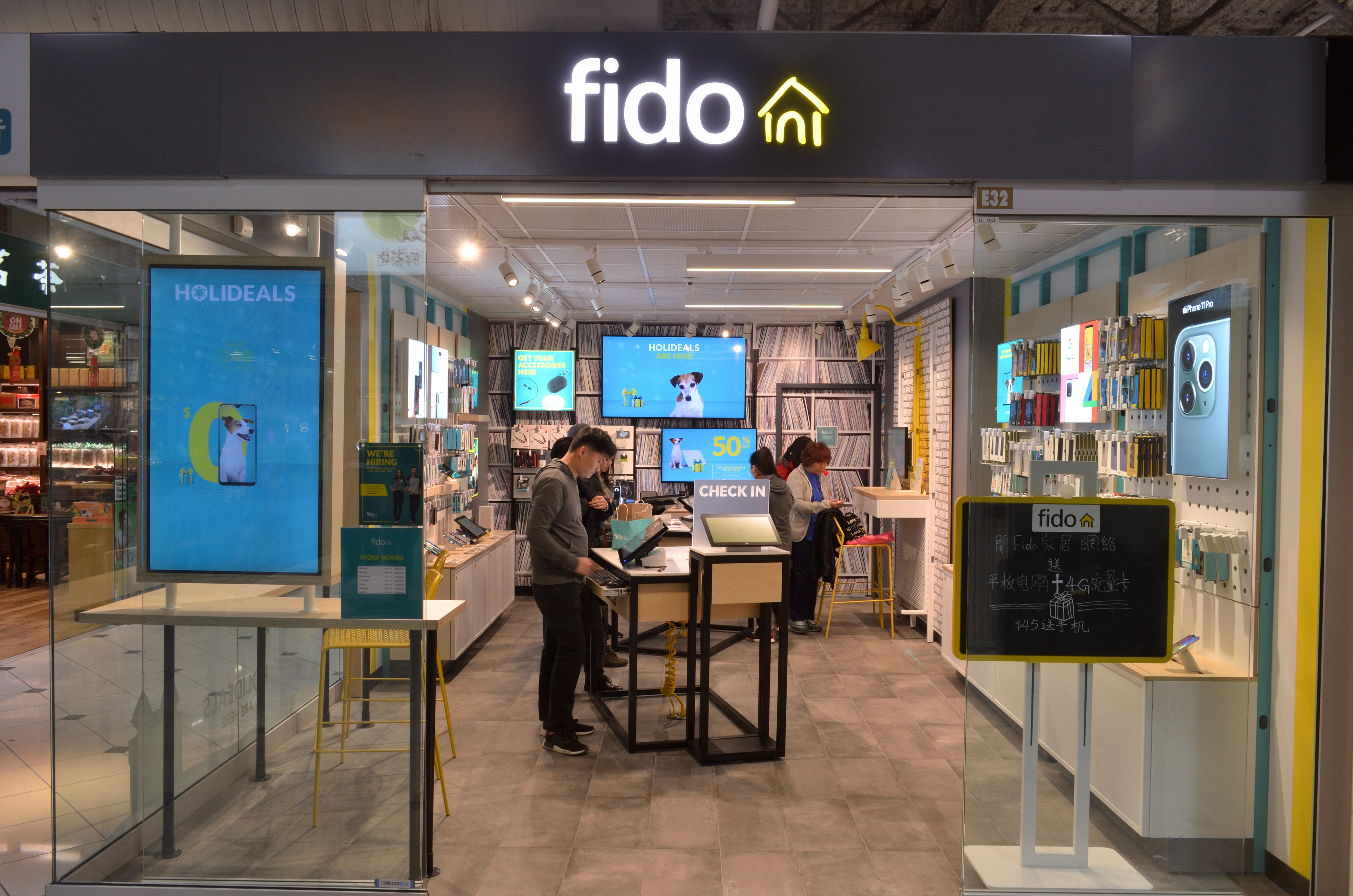 Fido at Pacific Mall, Ontario